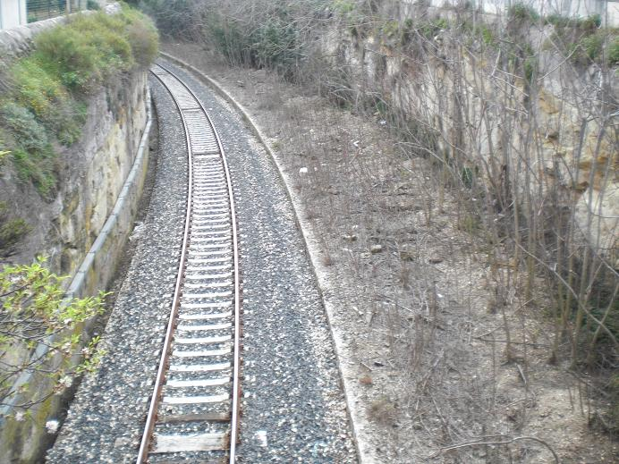 Railway tracks in Ragusa, Sicily. On the left the RFI tracks still in use and on the right the space left from were the traks for the SAFS railway used to be.